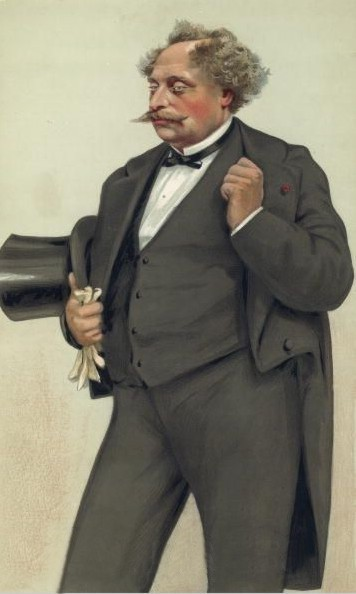 Caricature of Alexandre Dumas, fils. Caption read "French Fiction".